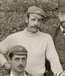 The Kent County Cricket team, circa 1888. John Pentecost.